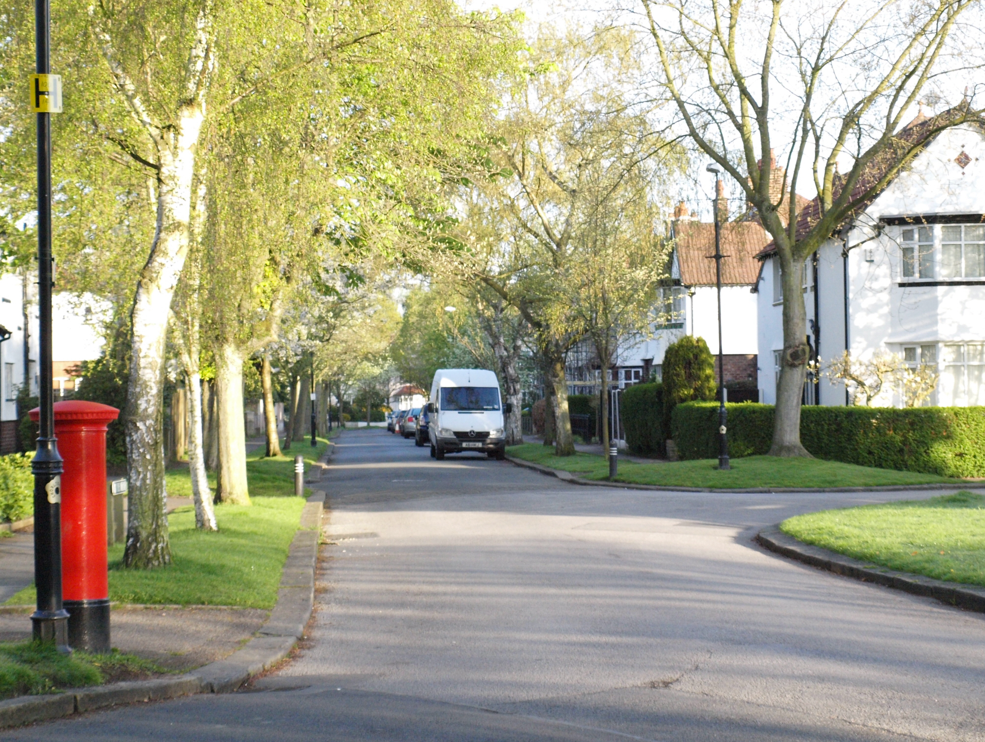 View down West Meade, Chorltonville estate, Manchester, UK.